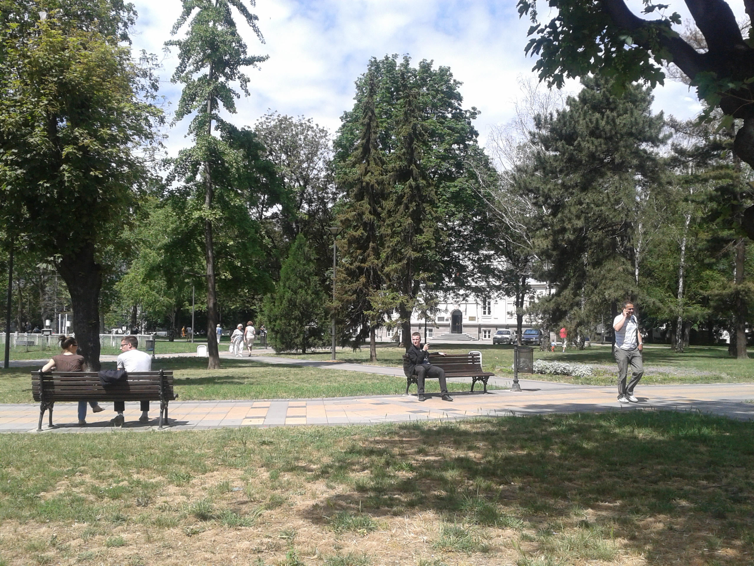 Park Milutin Milanković, Belgrade, Savski Venac